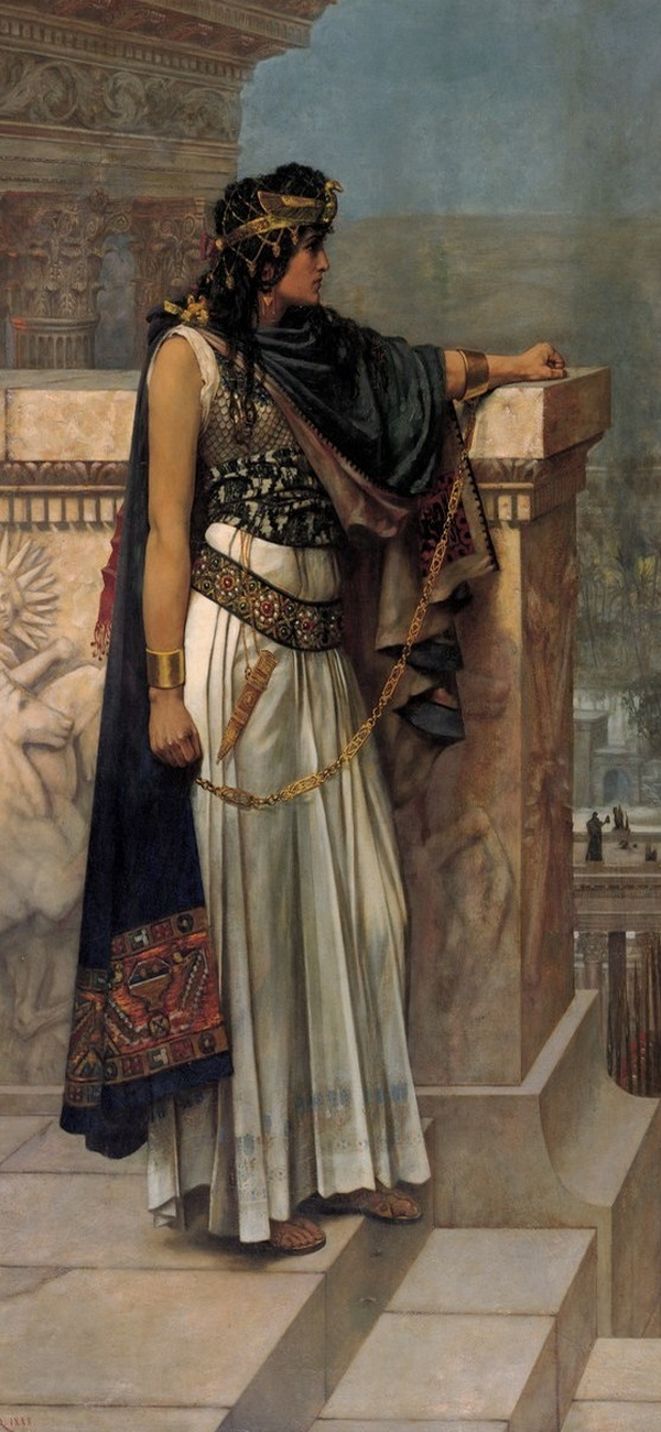 Queen Zenobia's Last Look Upon Palmyra.